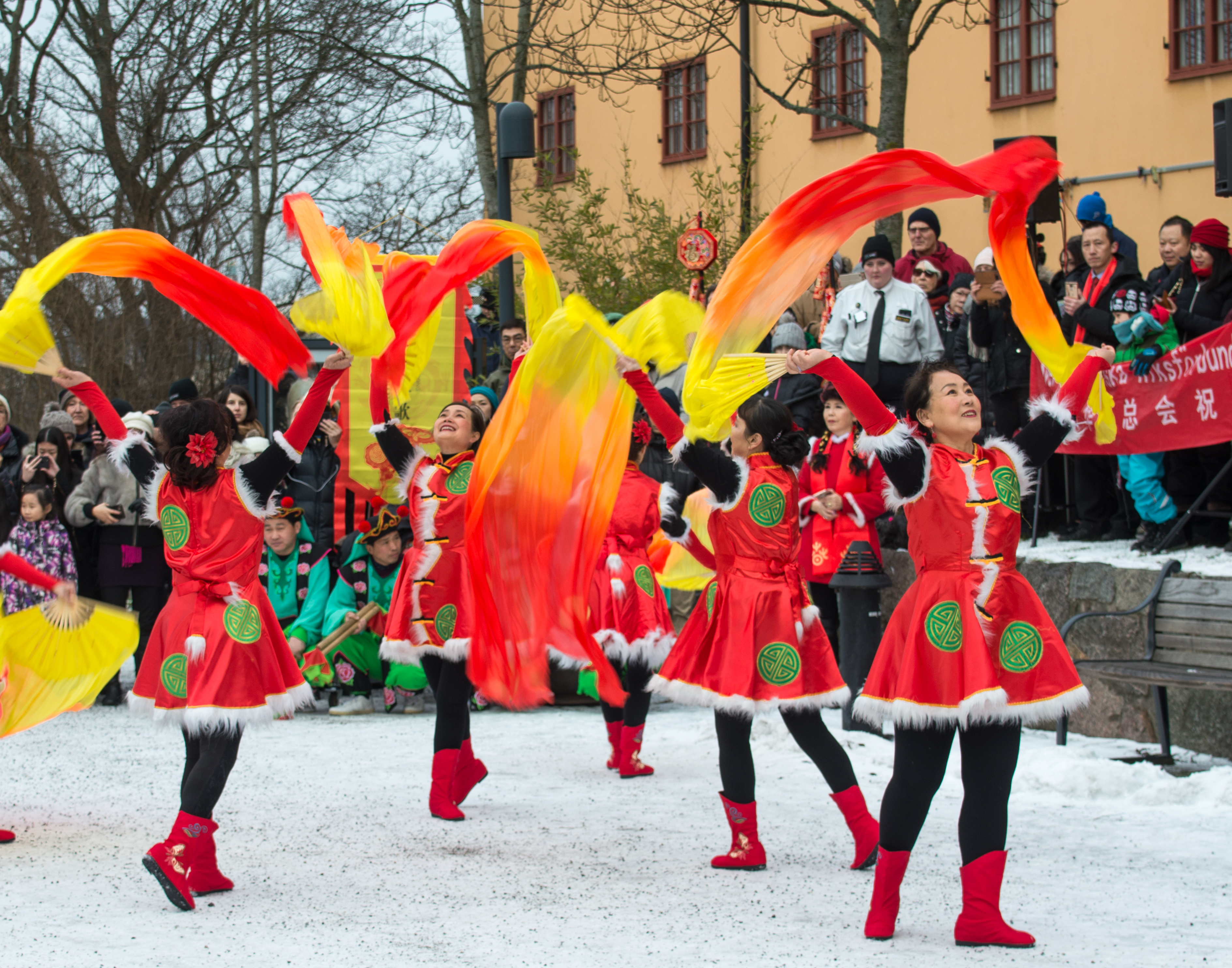 The Museum of Far Eastern Antiquities in Stockholm celebrates The Year of the Dog with a dragon parade, lion dance and Shandong Dance Group perform Yangko feb 10, 2018.